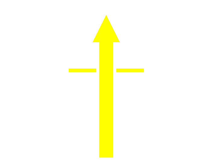 Mark of Ww2 GermanDivision Panzer 20 during WWII- Variant